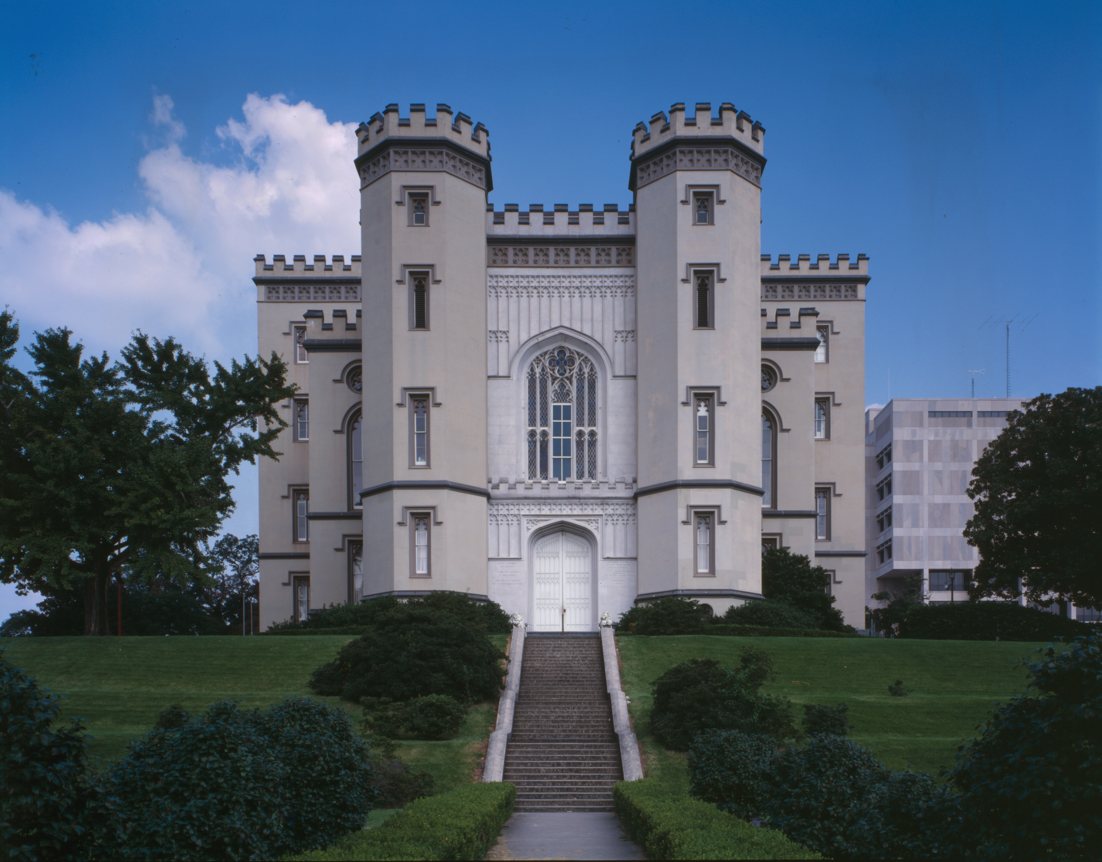 Old Louisana State Capitol building, West (main) Fascade. Baton Rouge, Louisiana.